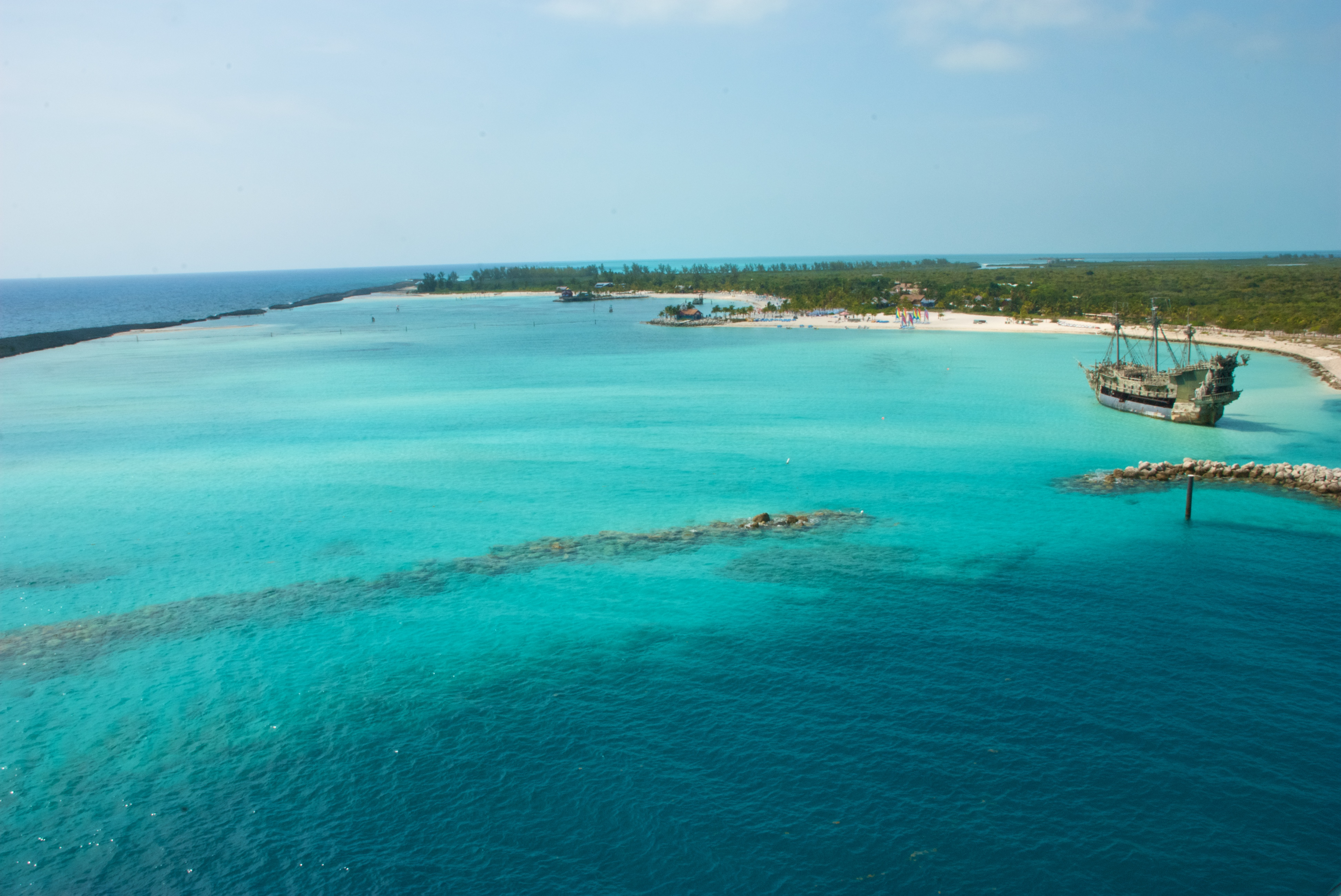 Flying Dutchman and Castaway Cay